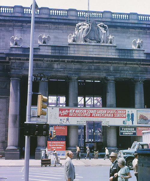 Demolition of Penn Station in June 1966